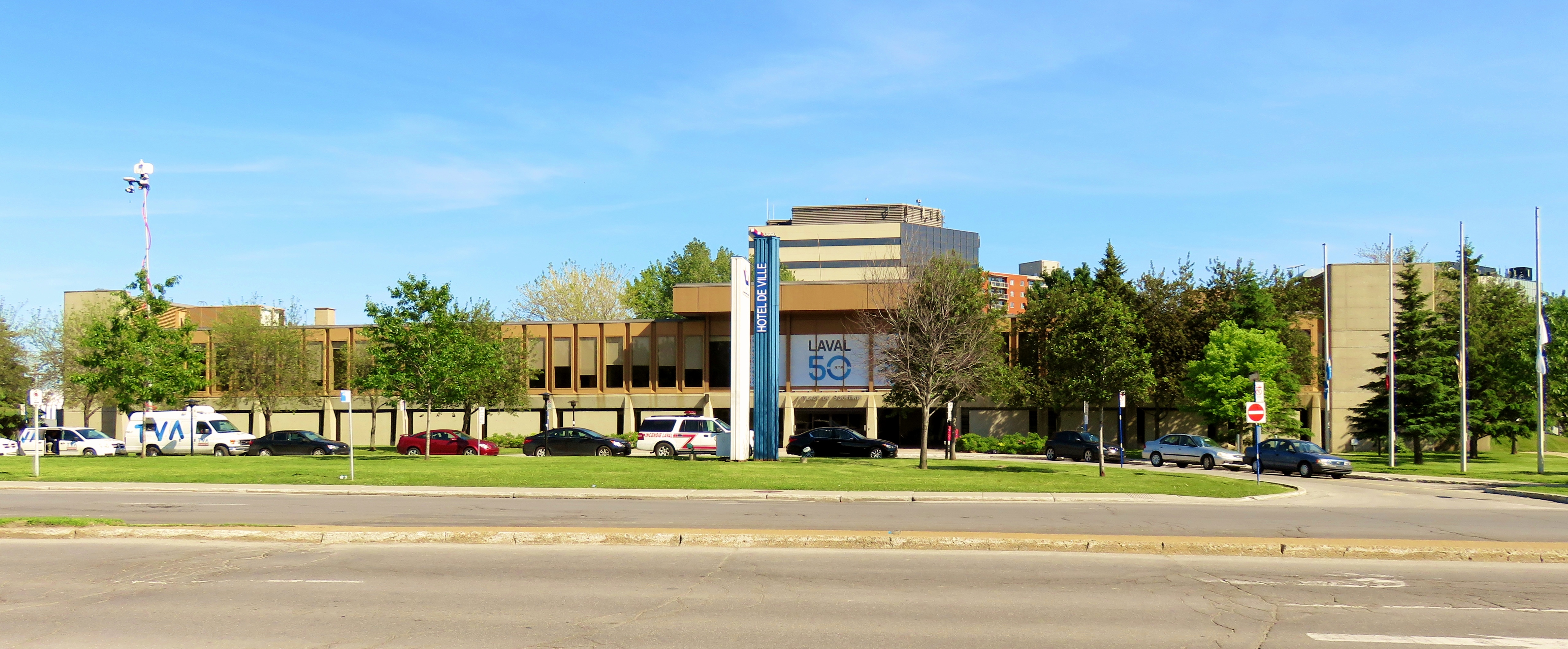 Laval City Hall, on 1 Place du Souvenir, Laval, Quebec, Canada.